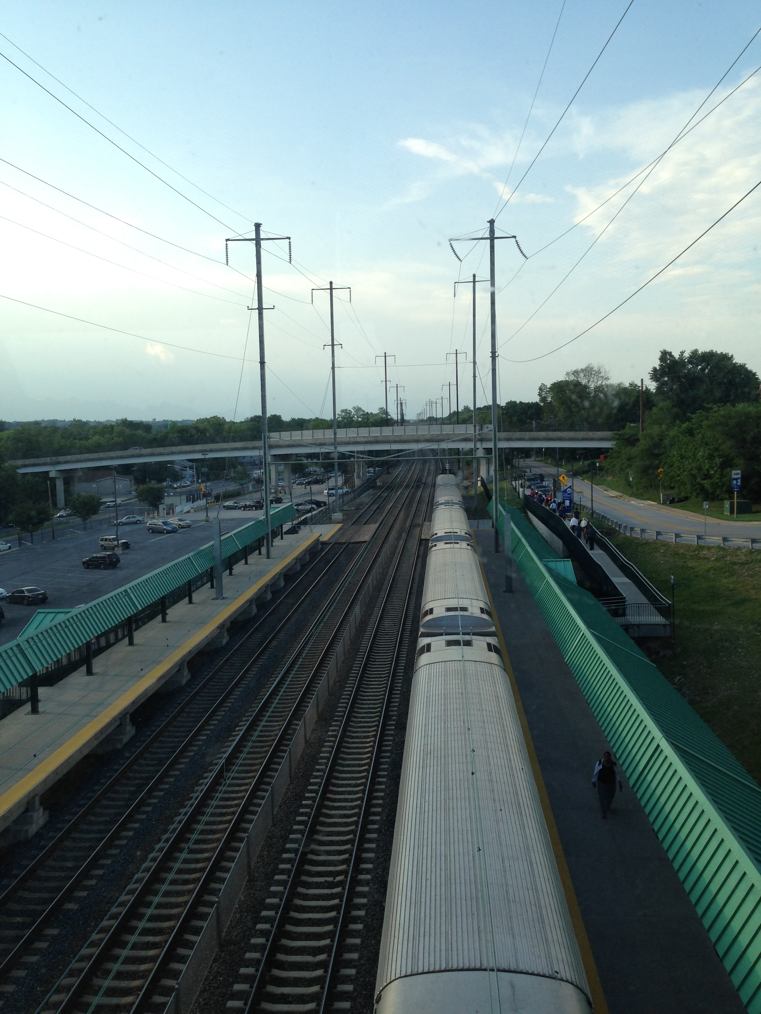 Looking north on the pedestrian bridge at Halethorpe Station. A Penn Line train is traveling north towards Baltimore Penn Station.